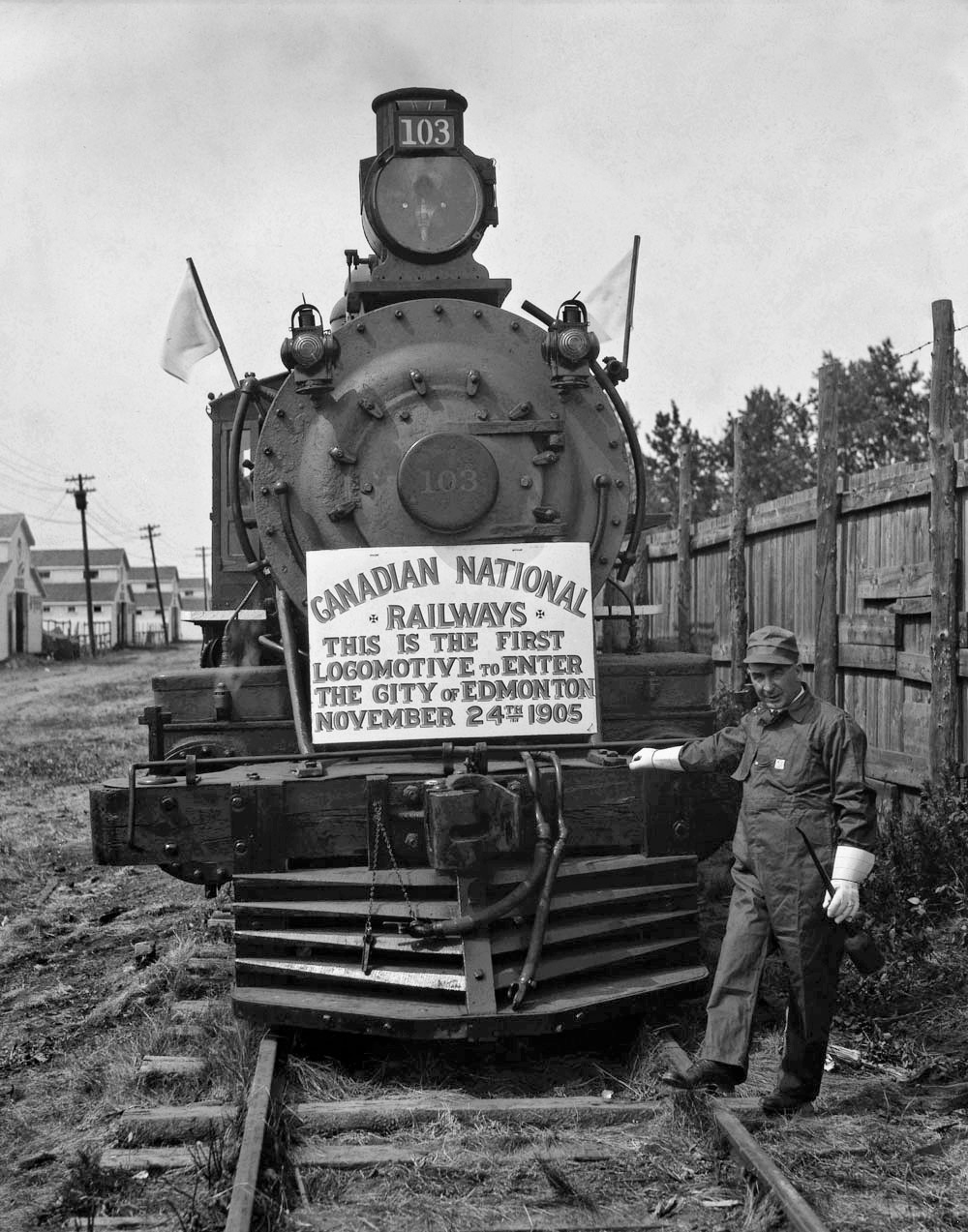 This locomotive, 103 originally of the Canadian Northern Railway (CNoR), was the first to enter the city of Edmonton on 24 of November 1905. CNoR was taken over by Canadian National Railways in 1918, several years before this photo in 1926.